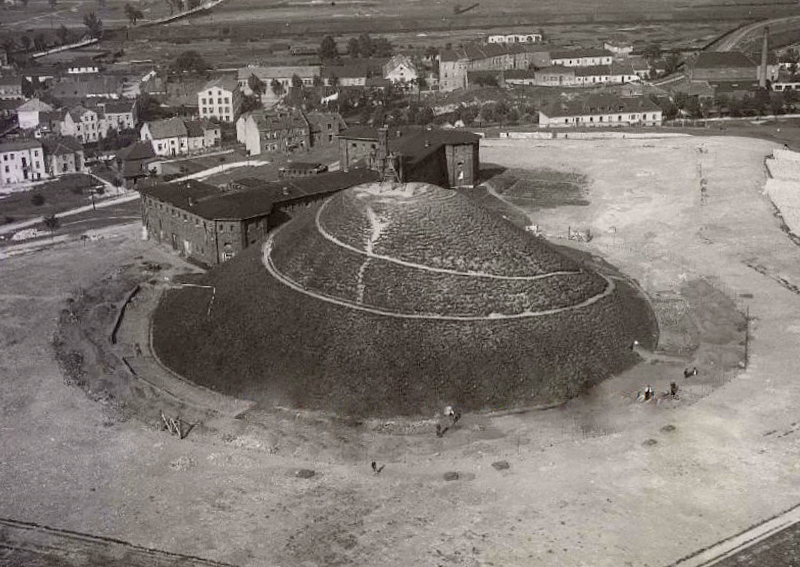 Krak Mound